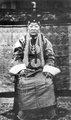 Mongolia's Ulsyn Ekh Dagina Tsendiin Dondogdulam